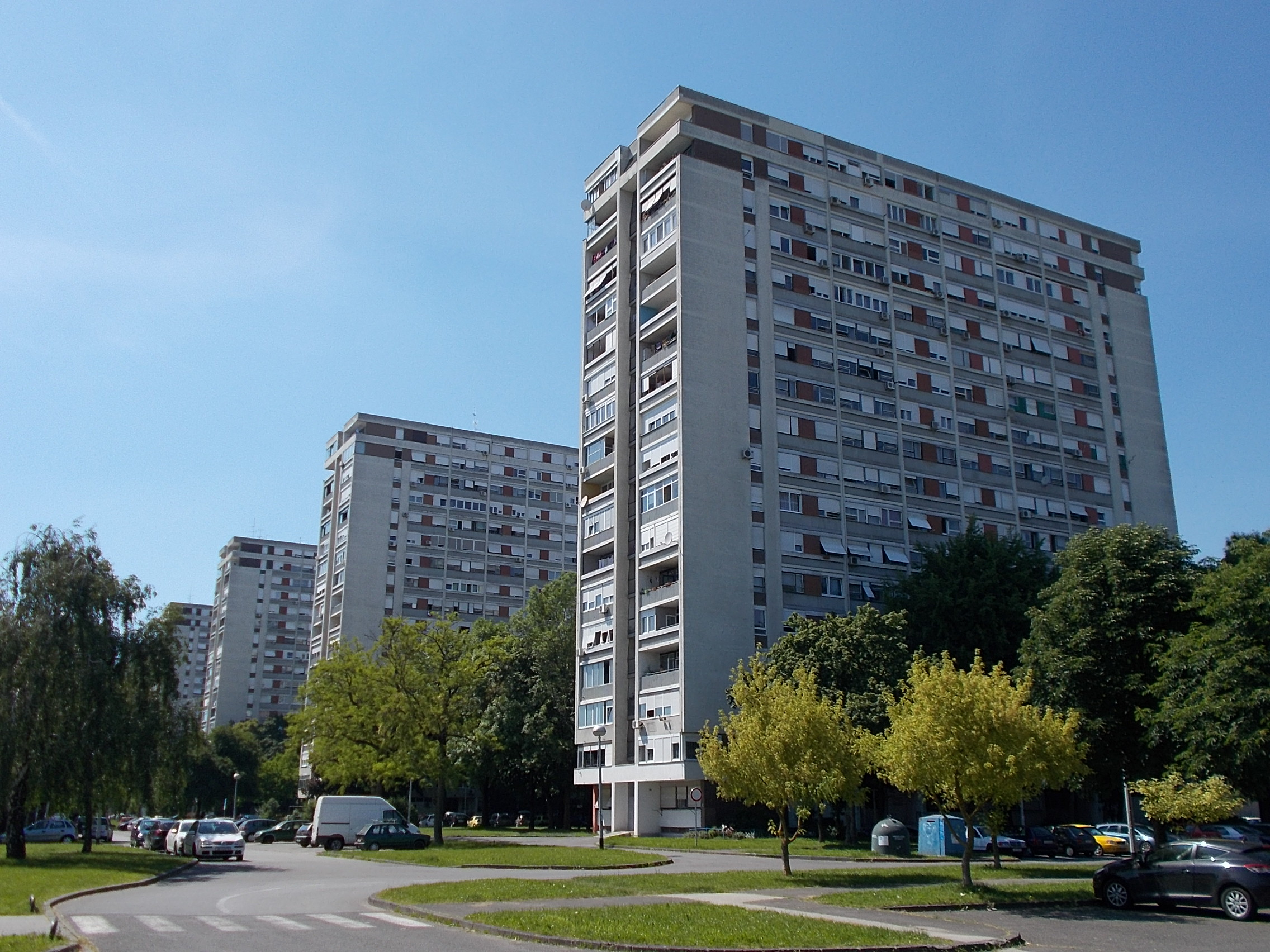 Residental buildings in Siget, Novi Zagreb.